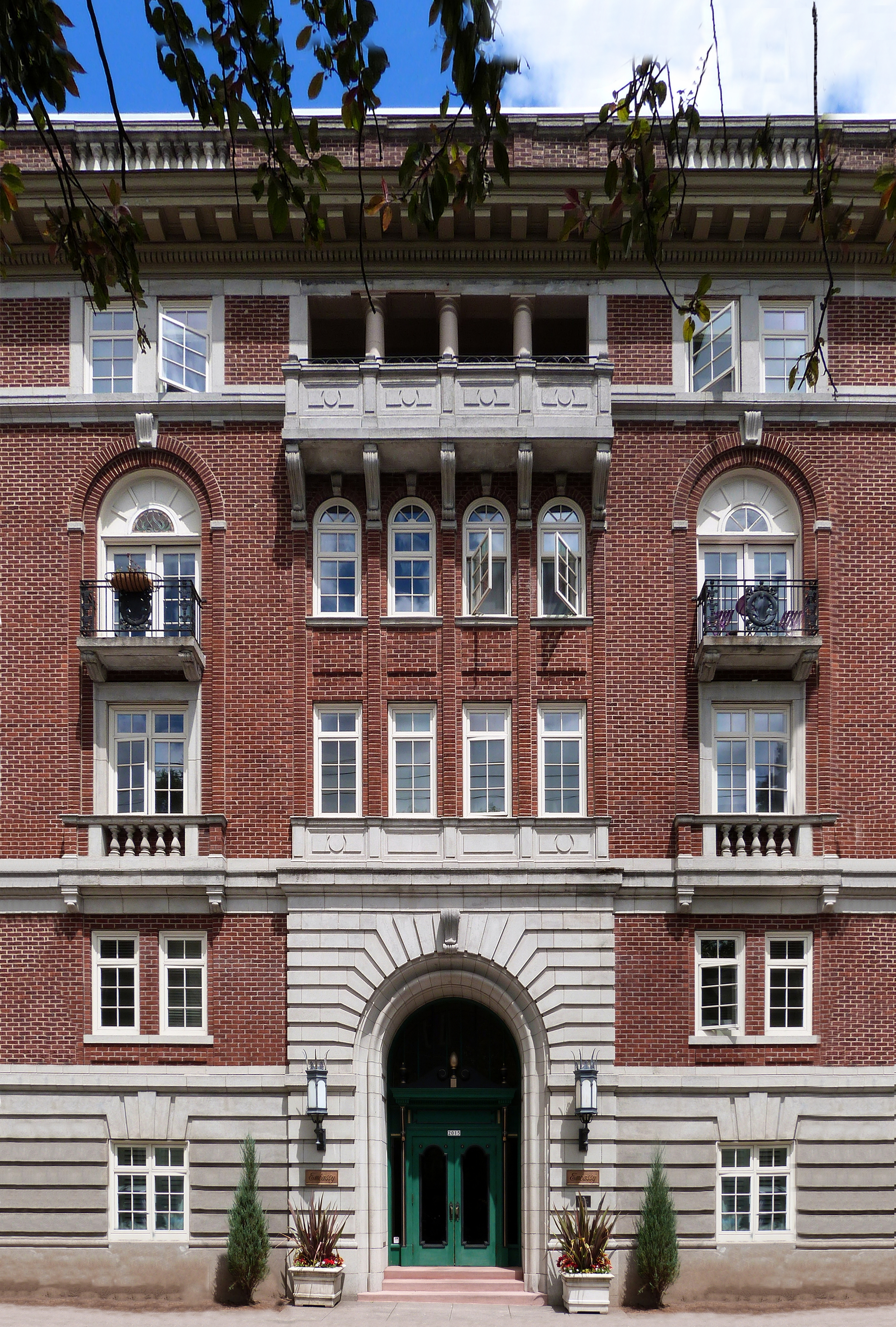 The historic Embassy Apartments (built 1925), located at 2015 Northwest Flanders Street in Portland, Oregon, United States, are listed as a contributing resource in the Alphabet Historic District. The historic district is listed on the US National Register of Historic Places.